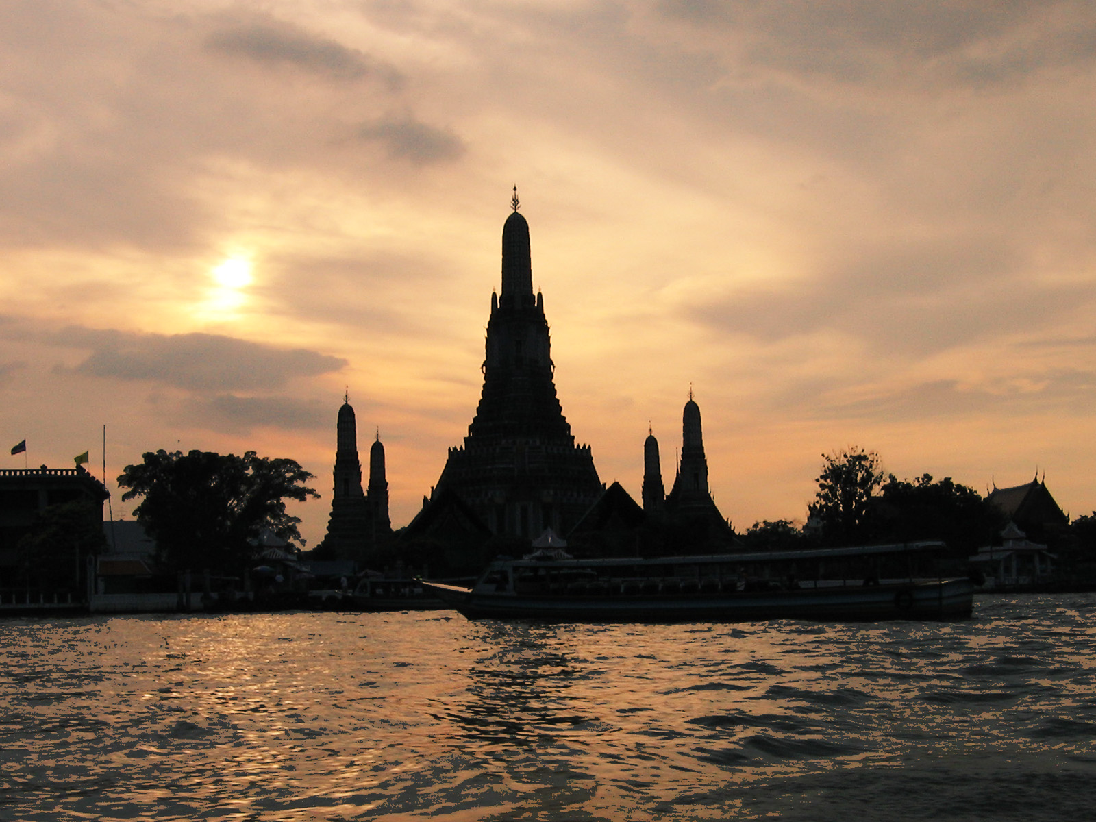 Wat Arun and Sunset Photo by Yosemite.